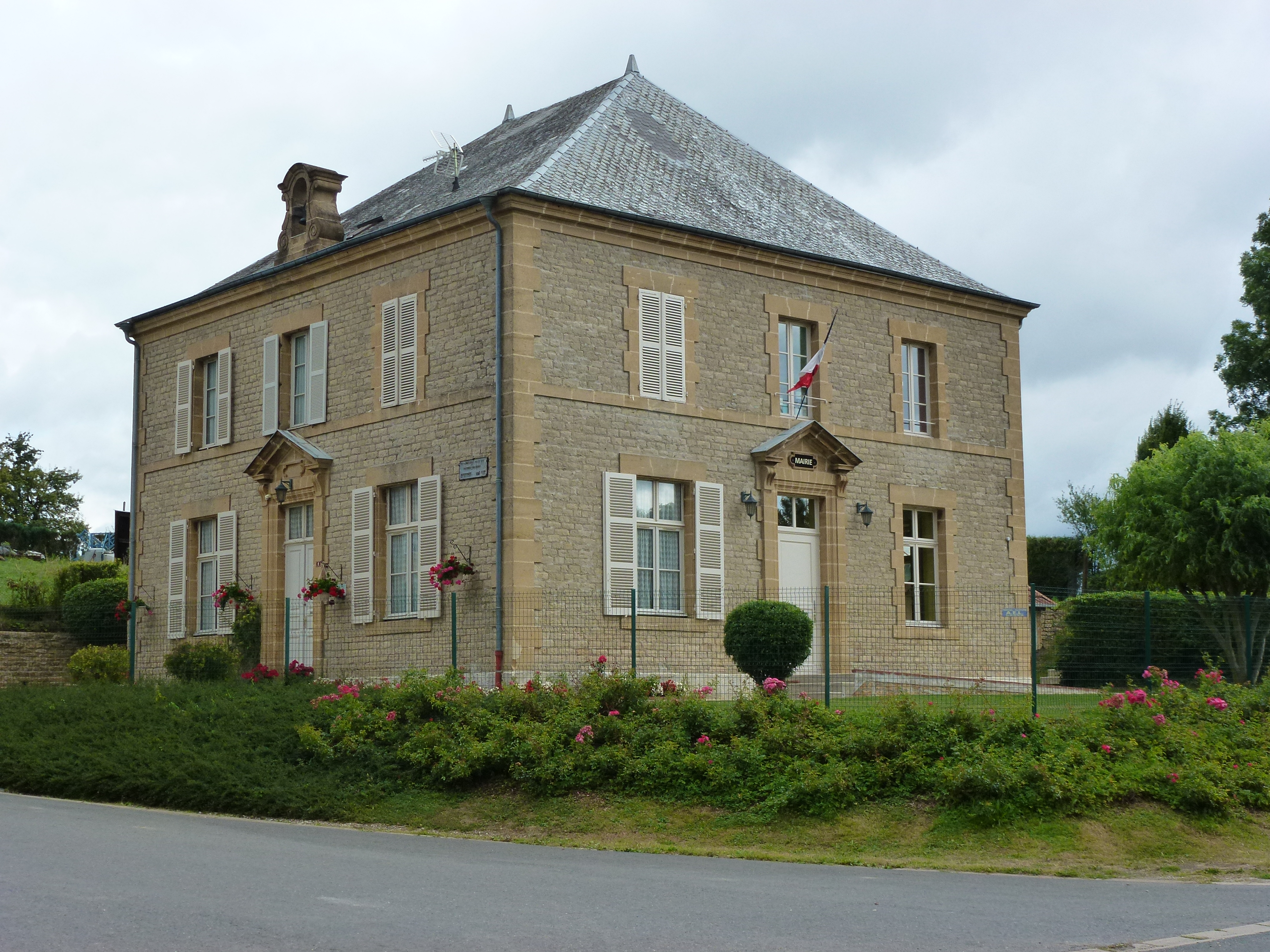 Montigny-sur-Vence (Ardennes) mairie